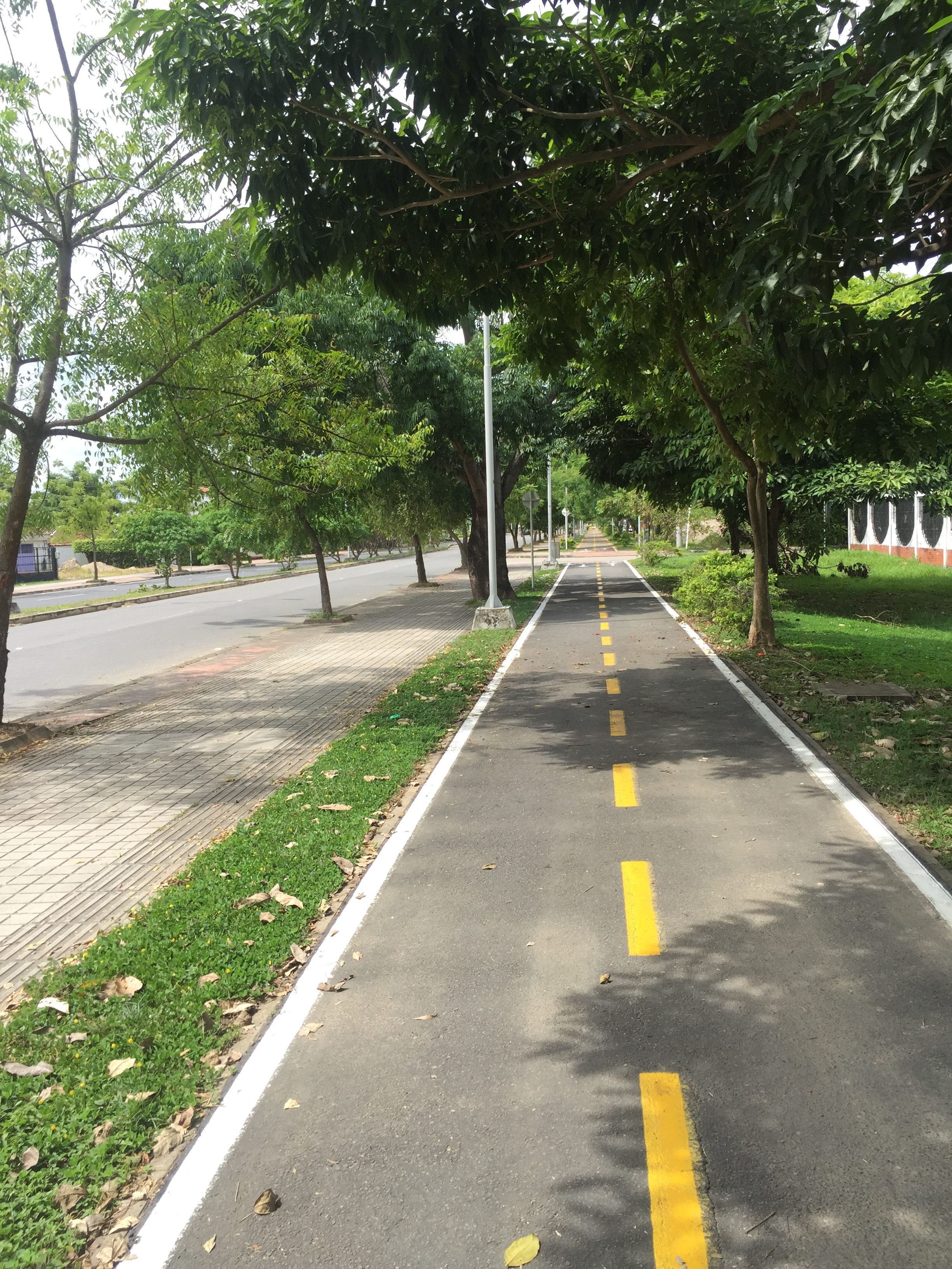 Es una vista general de la avenida en su cicloruta